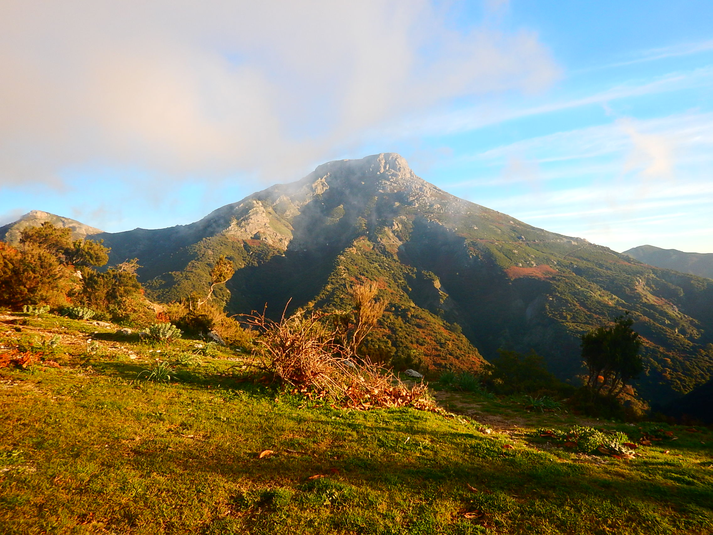 mount Scuderi, Peloritani mountains, Sicily